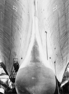 View of the bow of the U.S. Navy anti-submarine aircraft carrier USS Kearsarge (CVS-33) in dry dock at the Long Beach Naval Shipyard, in early 1969. Note the dome of the SQS-23 sonar.